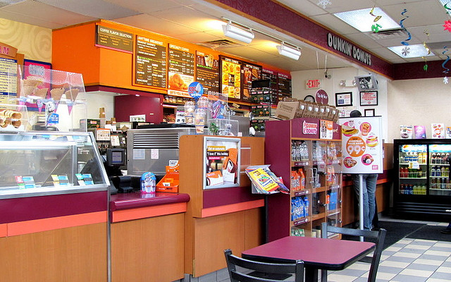 Coffee Time